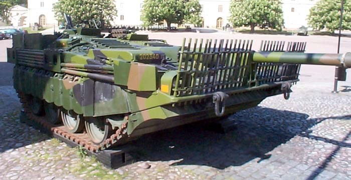 Swedish S-tank.